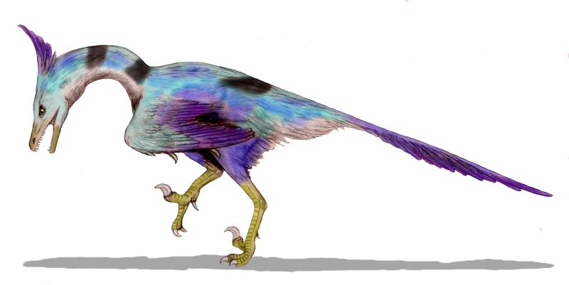 Unenlagia comahuensis, a dromaeosaur from the Late Cretaceous of Argentina, pencil drawing, digital coloring